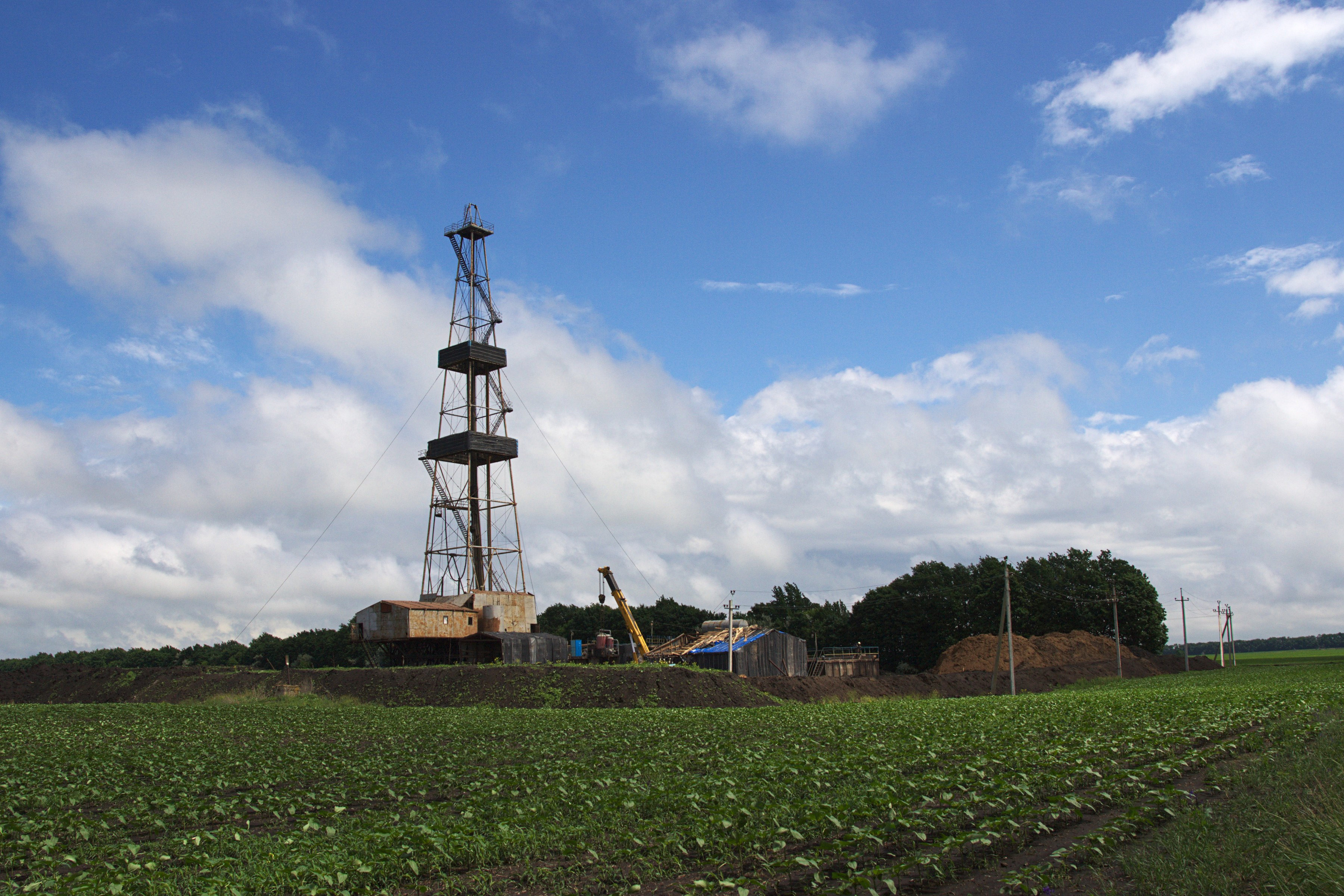 Drilling rig in Poltava Oblast